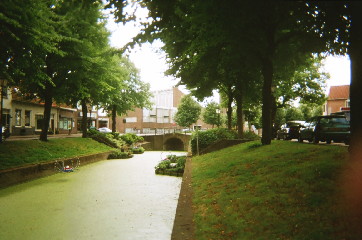 The Vliet through the former village-heart of Rijnsburg.